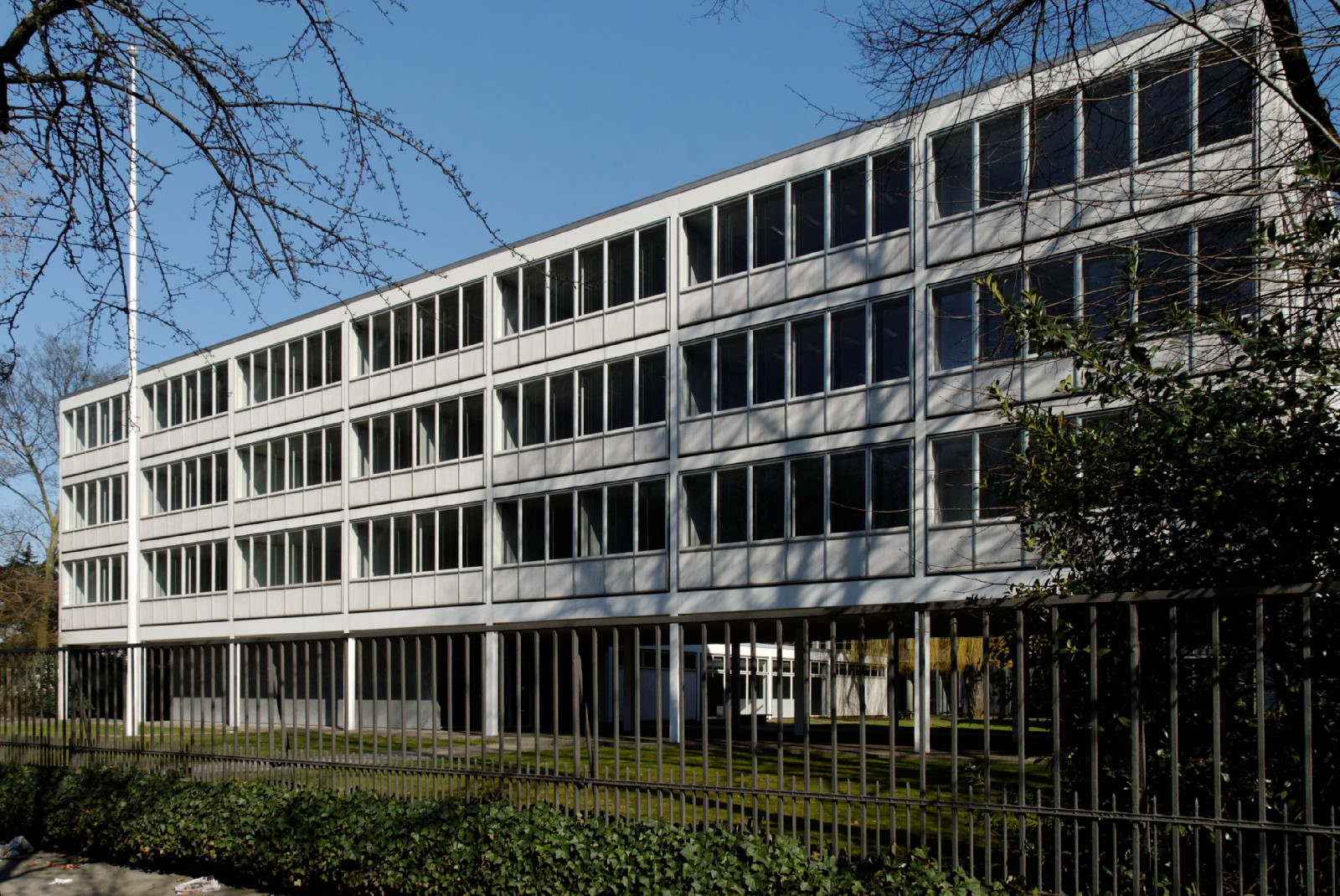 House Cecilienallee 5 in Düsseldorf-Golzheim, Germany